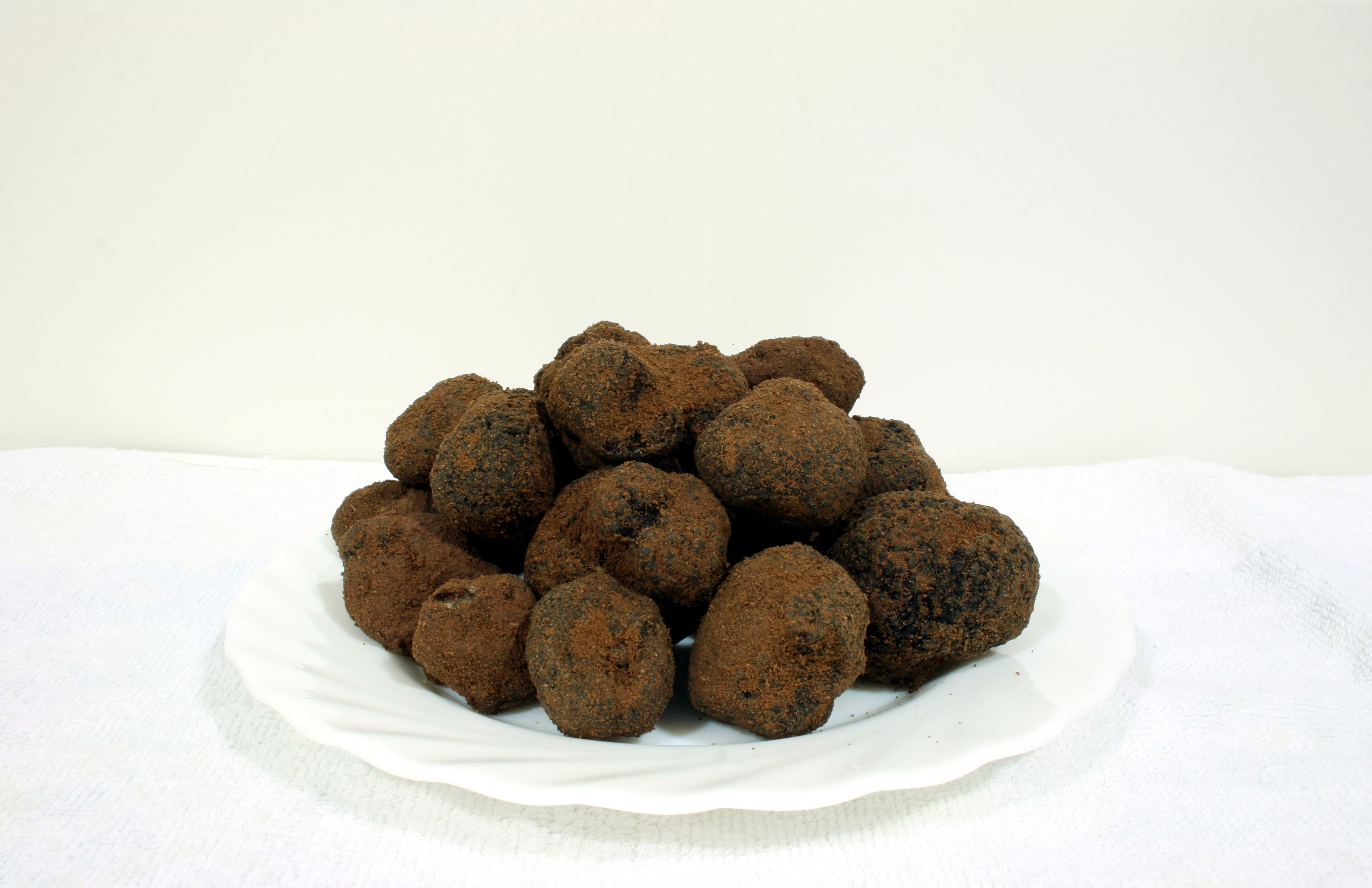 Tuber melanosporum - black truffle, Ágreda, Spain